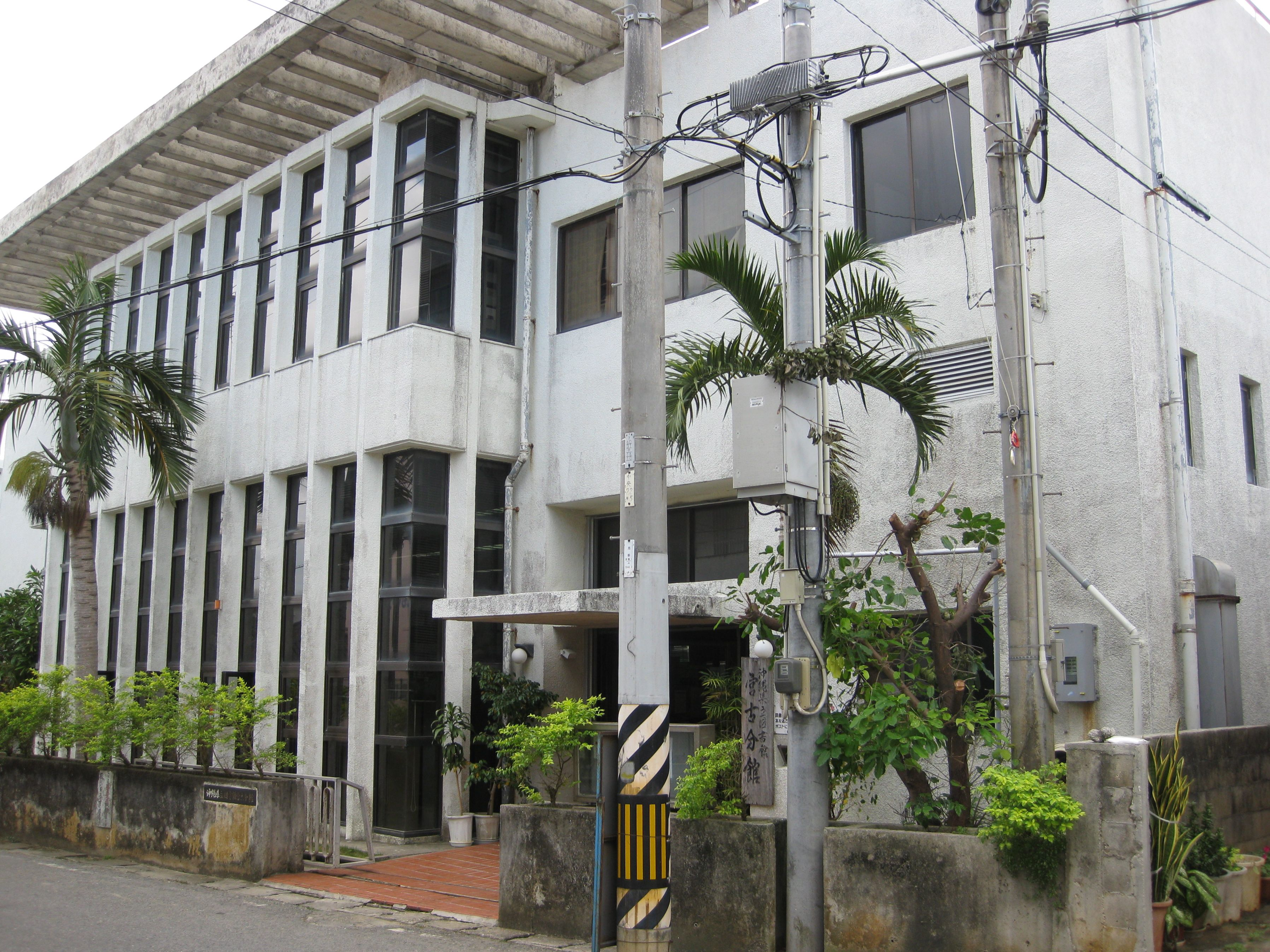 Miyako Branch, Okinawa Prefectural Library in Japan